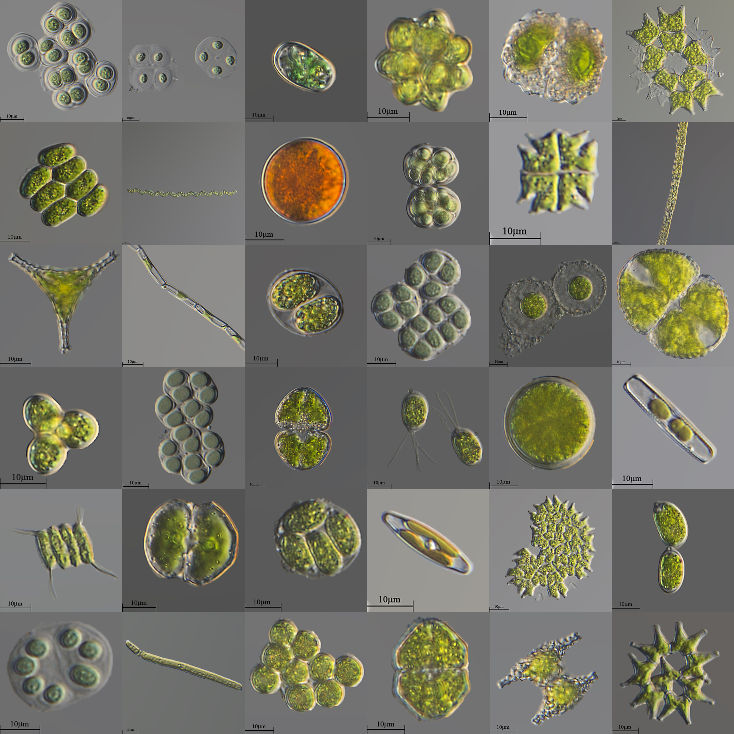 Overview of algae inhabiting a freshwater pond in Moscow. Differential-interference contrast. Different species of unicellular, colonial algae are represented.